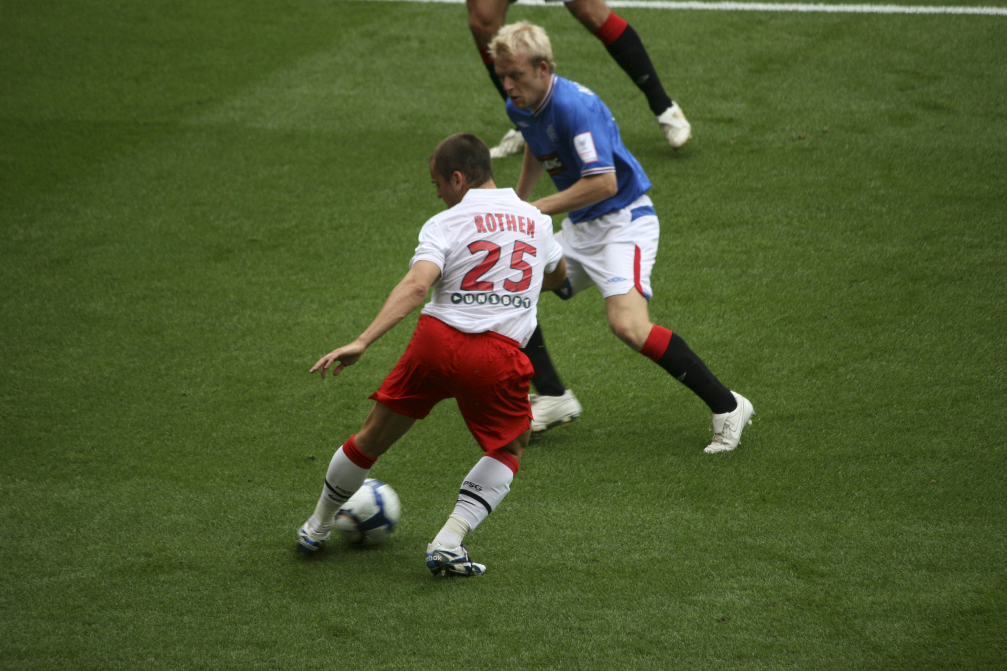 Rangers Vs. Paris Saint-Germain Emirates Cup 2009, Emirates Stadium Jerome Rothen Steven Naismith